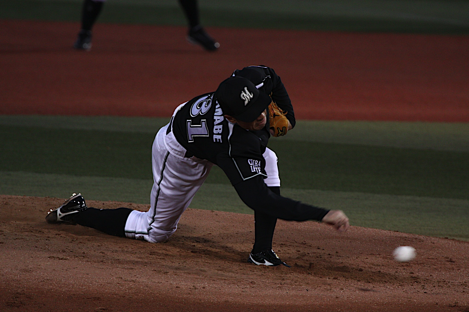 Shunsuke Watanabe, pitcher of the Chiba Lotte Marines, at Yokohama Stadium.